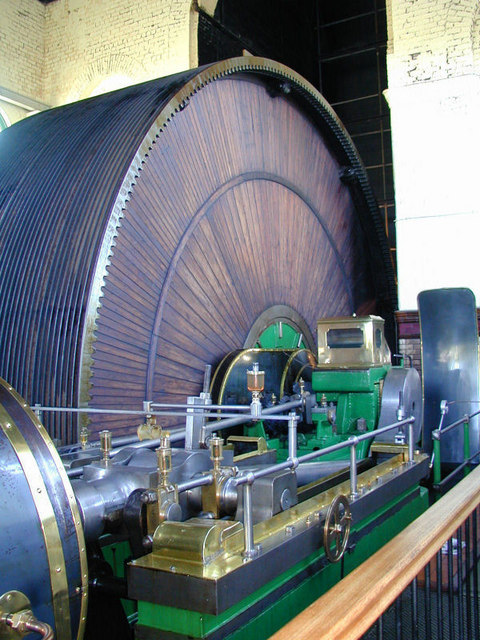 The Fly Wheel The flywheel is 28 feet in diameter and weighs over 80 tonnes.